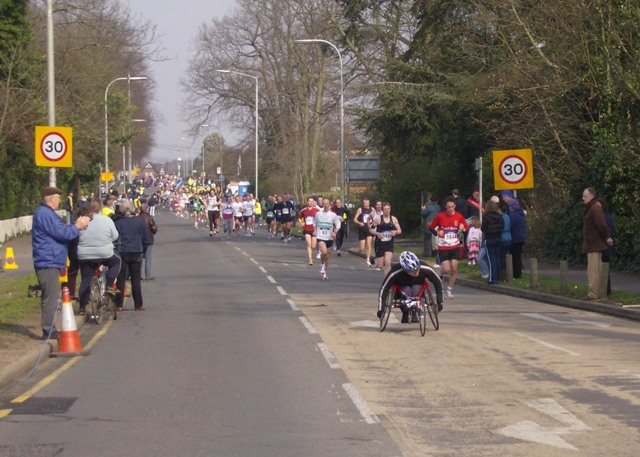 Reading half marathon Reading half marathon is apparently the third most popular half marathon in the country. It is usually run about a month before the London marathon so is a good training event for that one. The route in West Reading via Russell Street, Tilehurst Road, Liebenrood Road, Bath Road and Coley Avenue means that part of Reading is cut off whilst it is on, so the only thing to do is to go and watch. This is Liebenrood Road looking north. One of the wheel-chair competitors is about to be engulfed by hordes of good runners. The massed ranks are coming. This is about eight and a half miles.